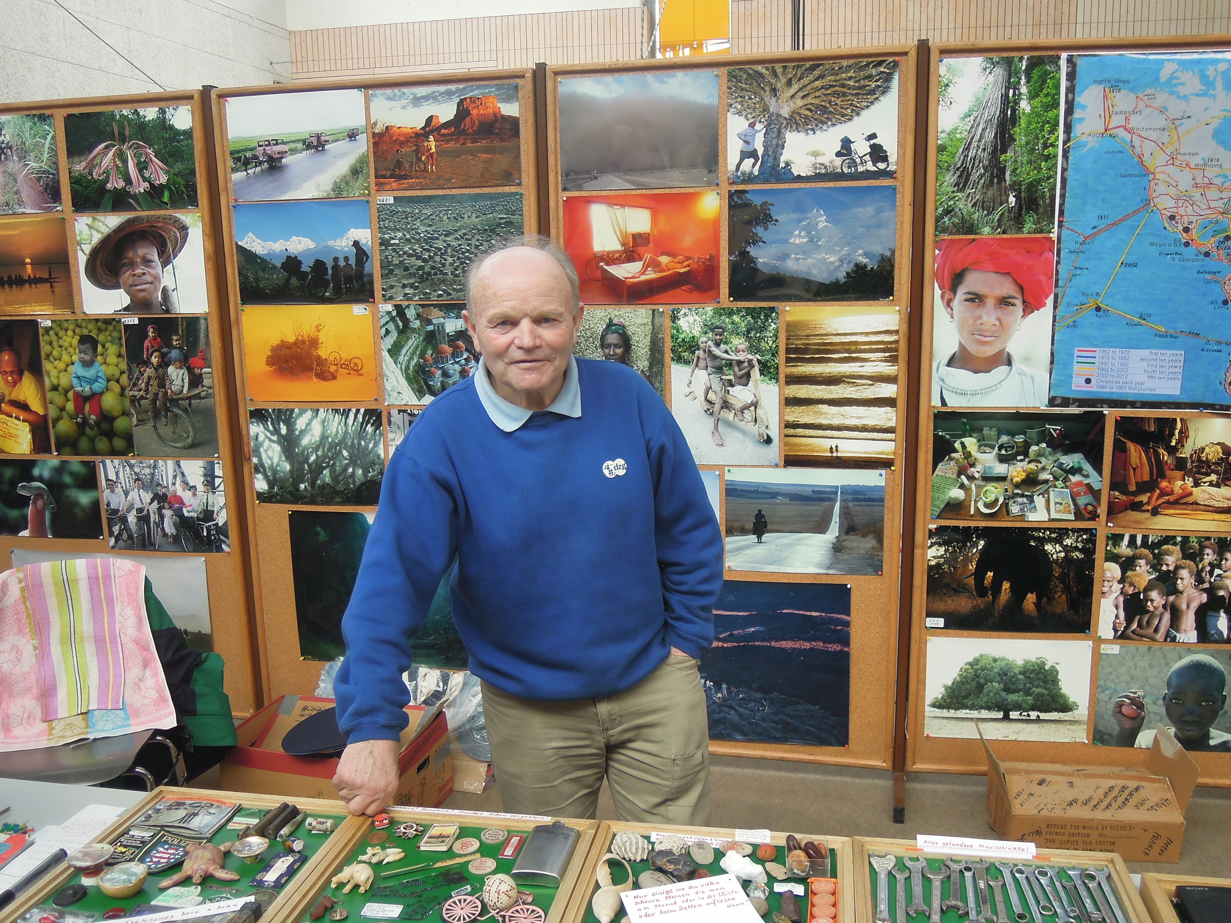 Glauchau - Heinz Stücke 2015 at the 5. AbenteuerTagen (Adventure Days) in Glauchau. The depicted person agreed orally for usage and publication of this image. (source name: dscn3864_5._Abenteuertage_Glauchau_-_Heinz_Stücke.jpg)